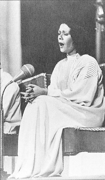 Iranian singer Parisa at Shiraz art festival, 1967